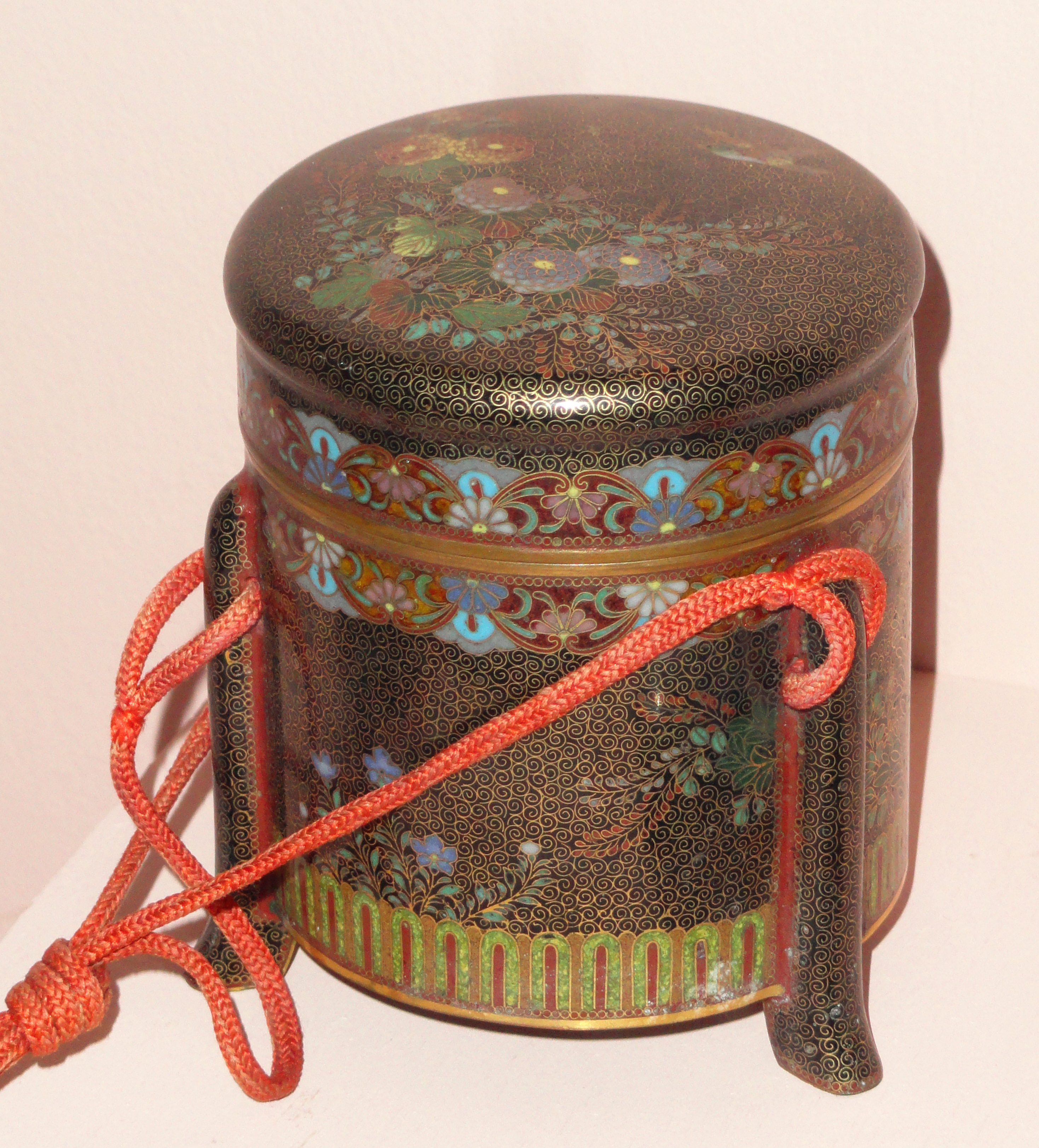 Exhibit in the George Walter Vincent Smith Art Museum, 21 Edwards Street, Springfield, Massachusetts, USA. This item is old enough so that it is in the public domain. The museum permitted photography without restriction.